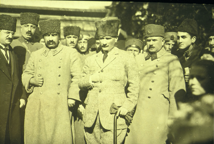 Fahreddin (Altay), Fevzi (Çakmak), Mustafa Kemal (Atatürk), Kâzım Karabekir visited Izmir in 1924.